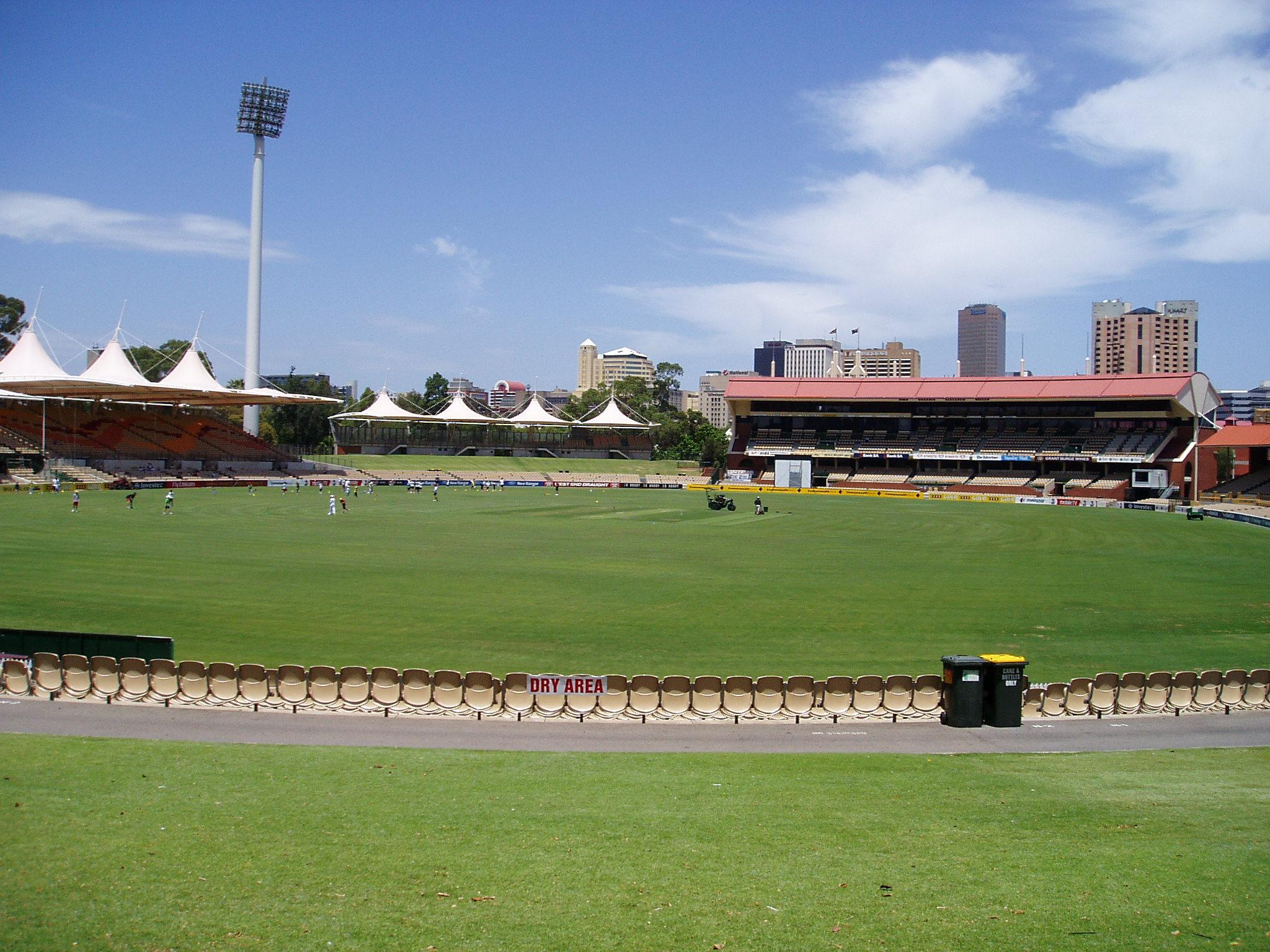 The Adelaide Oval. Taken in January 2007